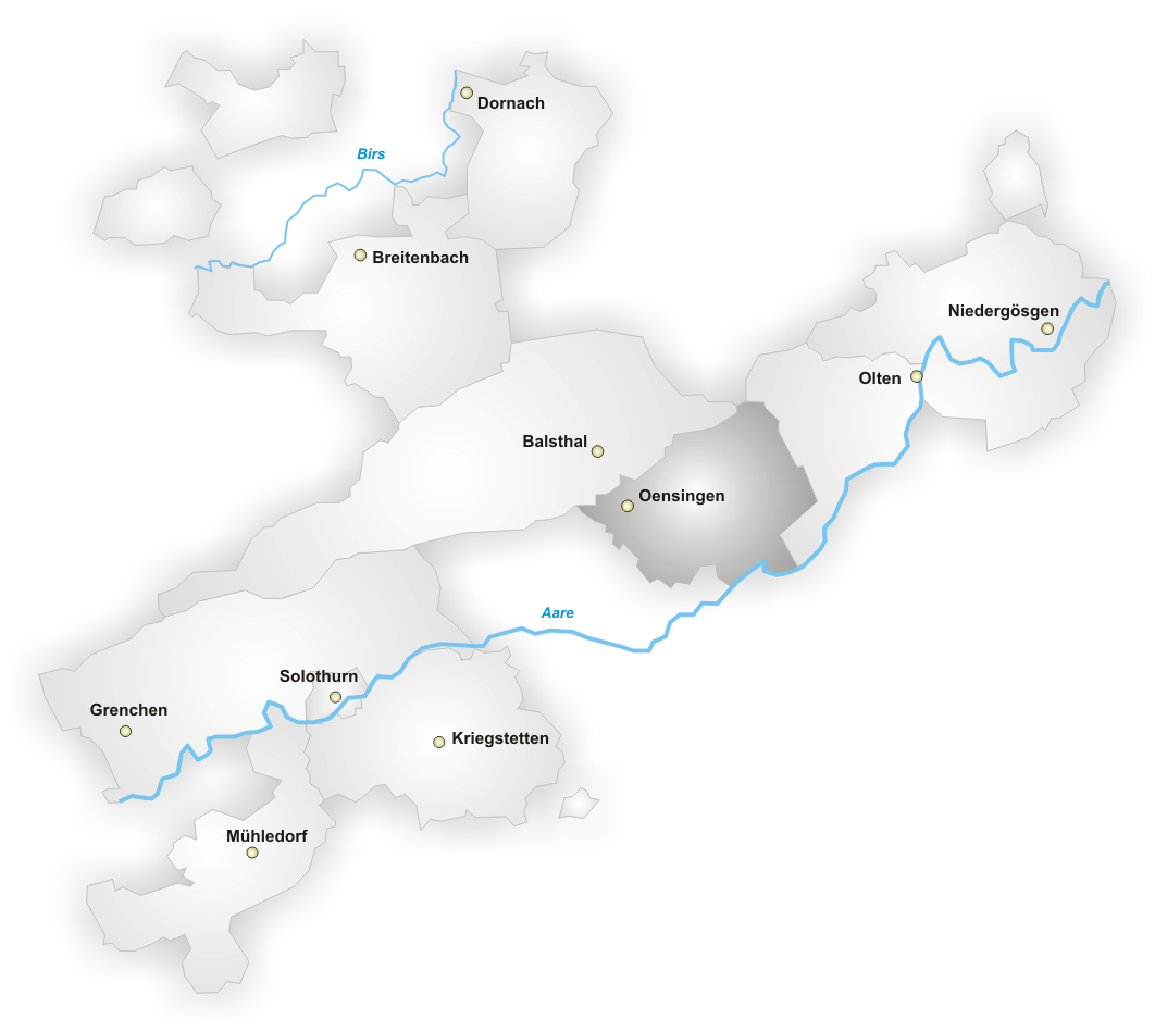 District Gäu